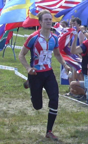 World Orienteering Championships 2008 in Olomouc, Czech Republic. On photo Jamie Stevenson.